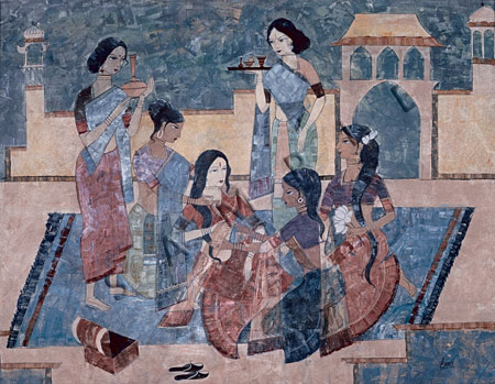 Bride Celebration by Amrit Desai